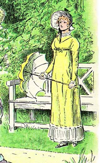 Detail of C. E. Brock illustration for the 1895 edition of Jane Austen's novel Pride and Prejudice (Chapter 56) showing Elizabeth Bennet outdoors in "walking dress", with bonnet and parasol.